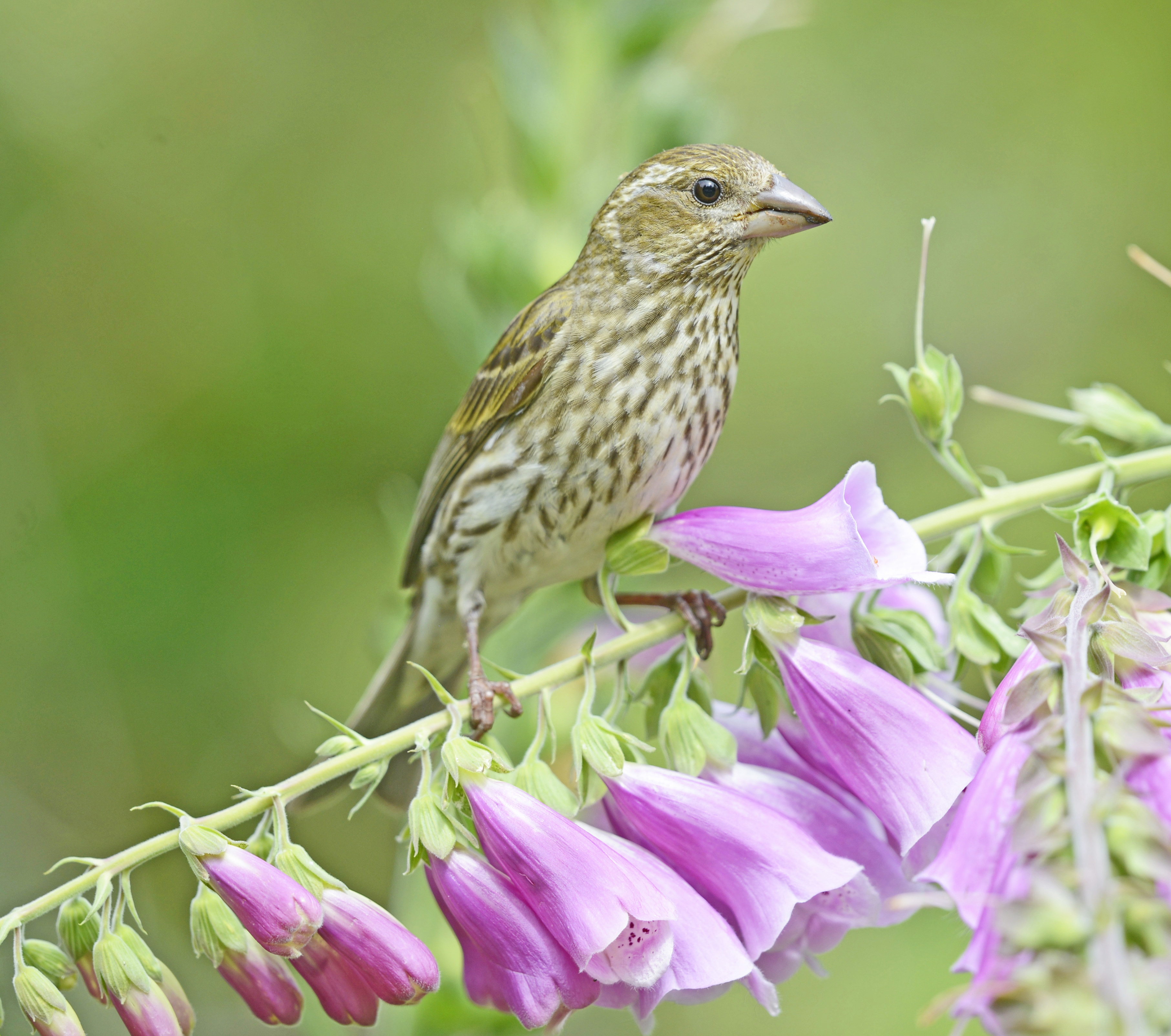 Purple Finch (Carpodacus purpureus) female, Western Washington State